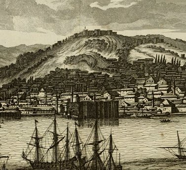 Smyrna